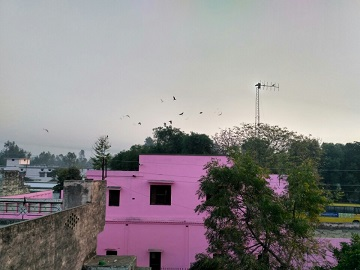 F